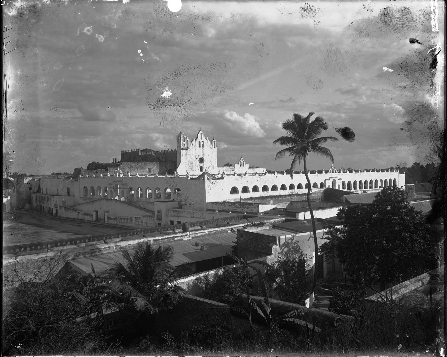 Church and monastery of Izamal. San Antonio de Padua. Izamal, Yucatan, Mexico. Large (arena) courtyard with painted sign...del Mundo. 1899. Name of Expedition: Allison V. Armour Expedition Participants: Charles F. Millspaugh, Edward P. Allen, Edward S. Isham Jr.,Jordan L. Mott Jr. Expedition Start Date: December 21, 1898 Expedition End Date: March 11, 1899 Purpose and Aims: Plant collecting and photography for Botany in the Bermuda, Bahamas, Haiti, Jamaica, Puerto Rico, Cuba, Yucatan. Vessel Name: Utowana (Yacht, Sailboat) Location: Original material: 8x10 inch glass negative Digital Identifier: CSB4187 Learn more about The Field Museum's